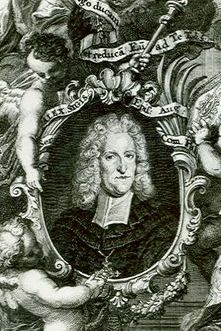 Alexander Sigismund von der Pfalz-Neuburg (1663-1737)